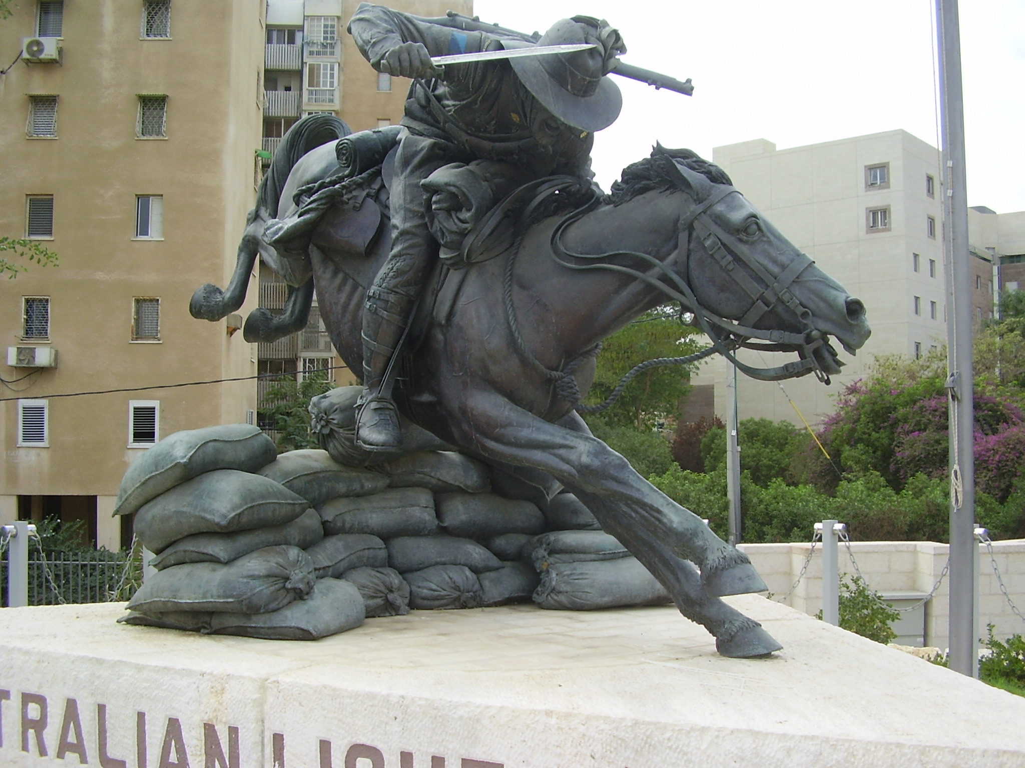 australian light horse monument (first world war) in be\'er sheva